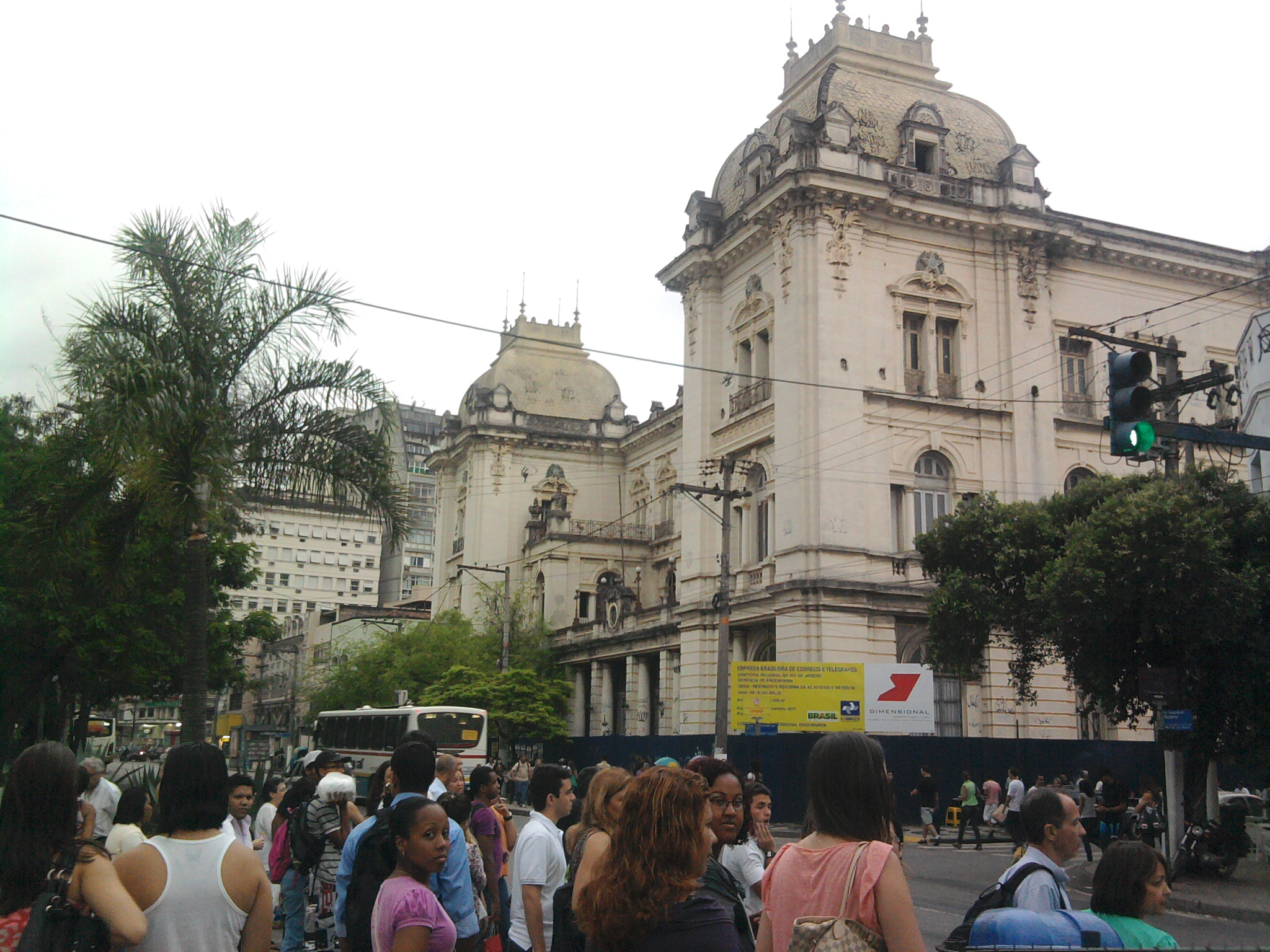 Palácio dos Correios, Niterói, Rio de Janeiro, Brazil.